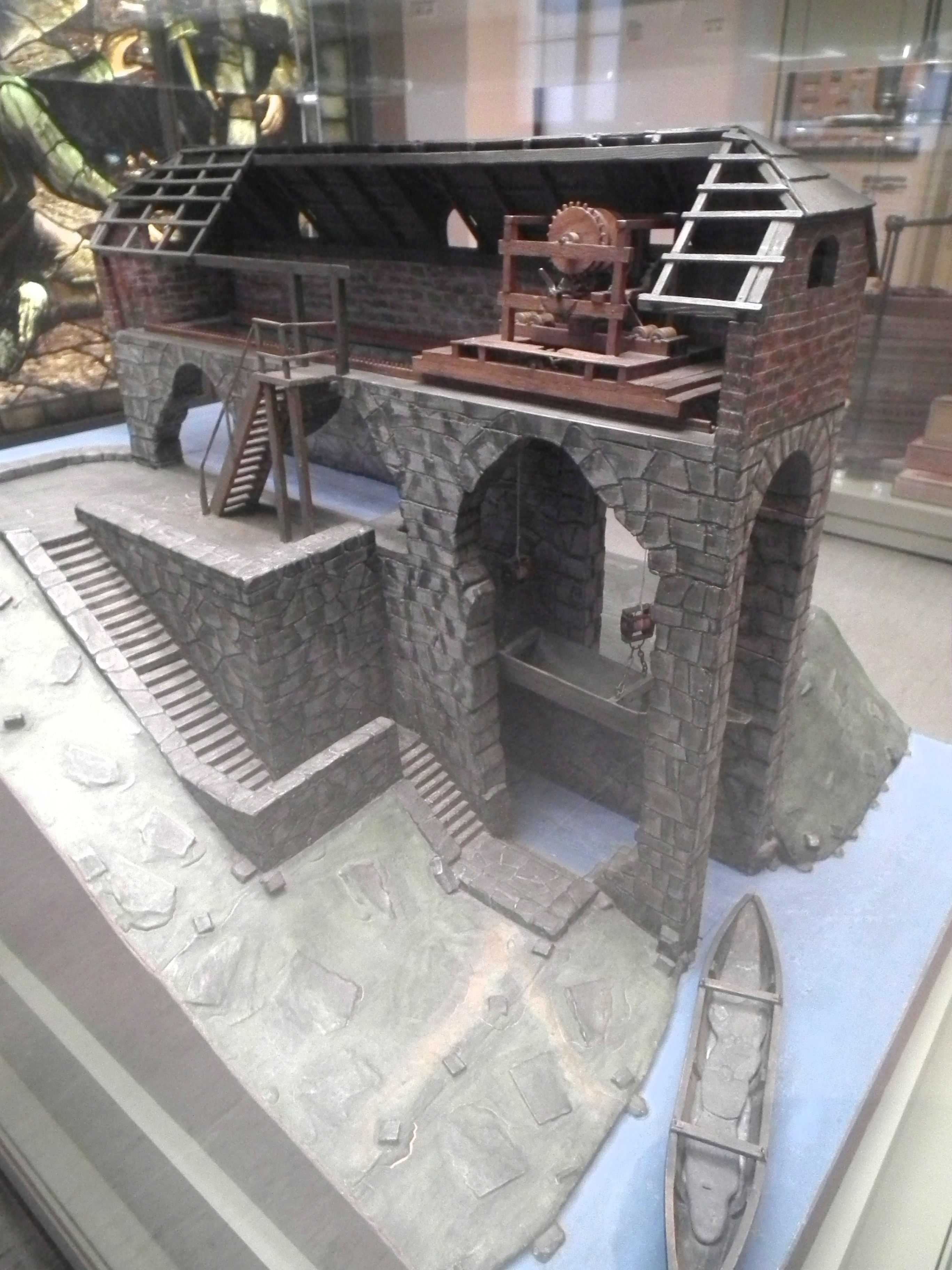 Tub boat lift Halsbrücke, model, city museum of freiberg